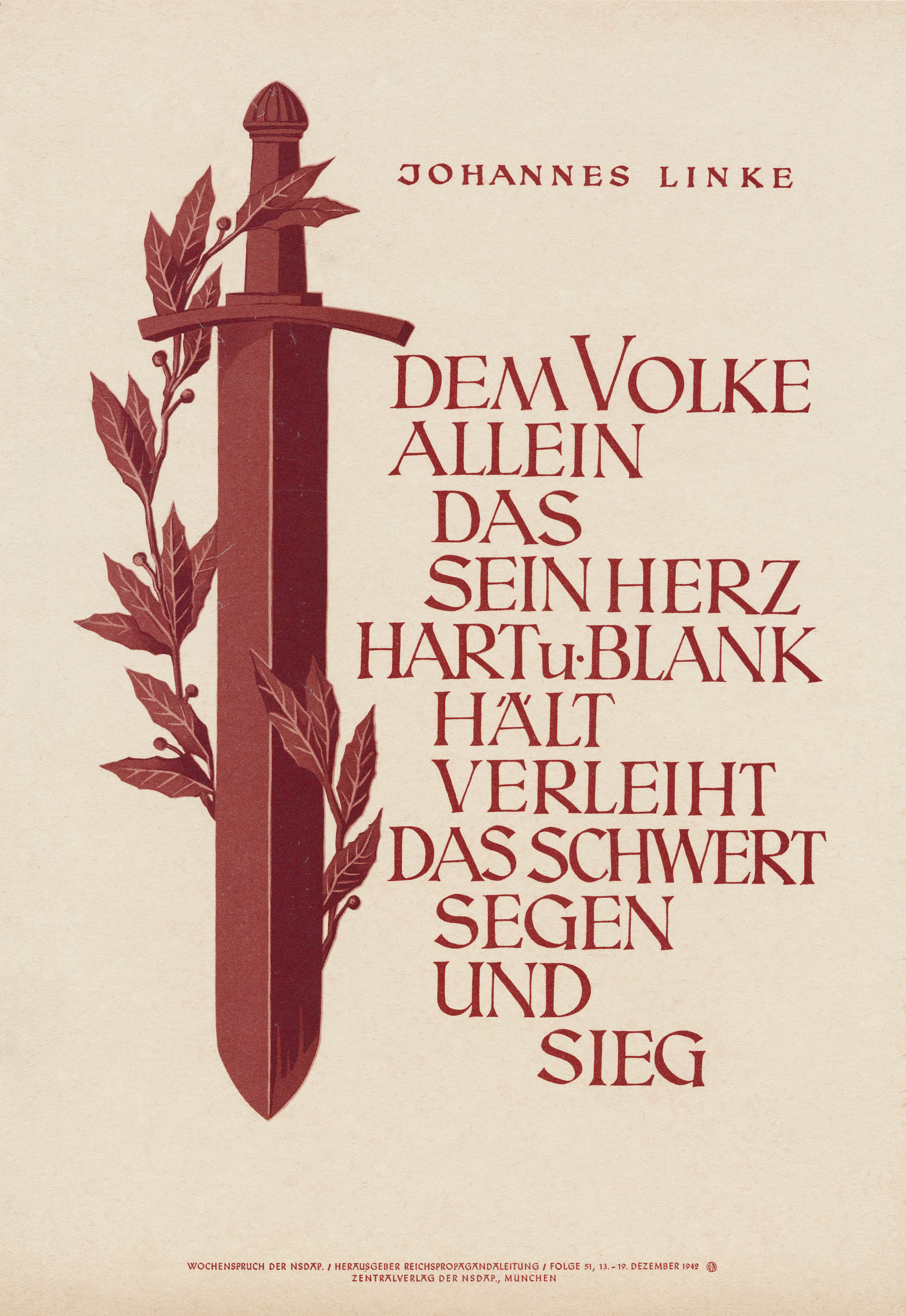 The Sword Awards Blessing And Victory Only To The People That Keeps Its Heart Hard And Pure — Johannes Linke